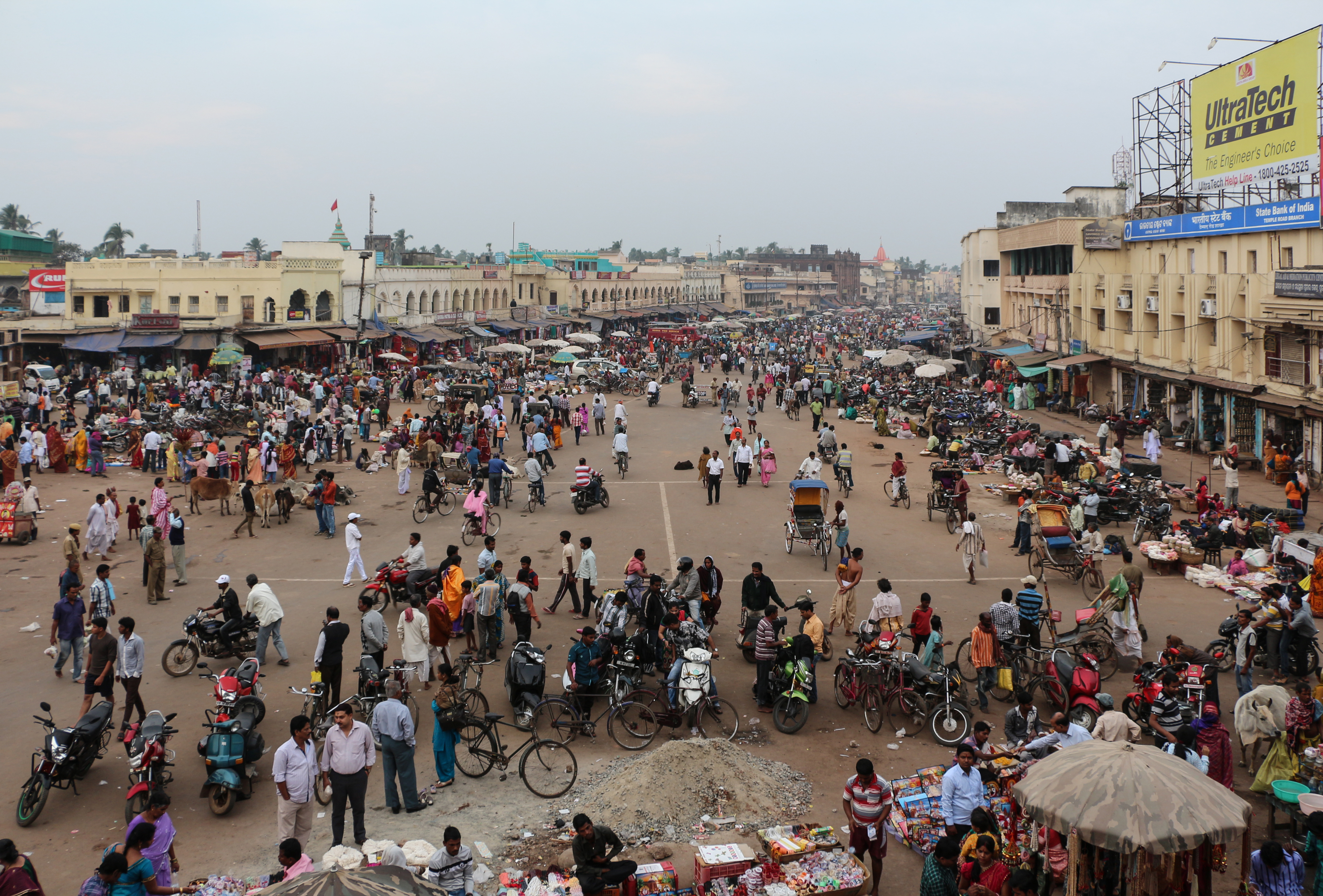 Grand Road, Puri, India